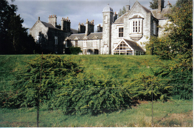 Hensol House This imposing house sits on the south bank of the River Dee where the river joins Loch Ken.